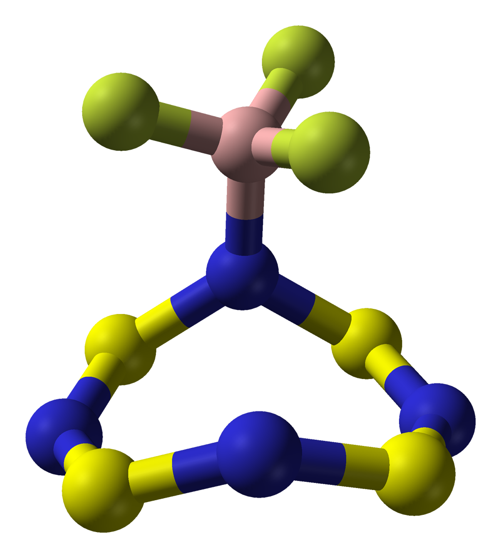 Ball-and-stick model of the tetrasulfur tetranitride-boron trifluoride adduct, S4N4·BF3, from the crystal structure. Single-crystal X-ray diffraction data and crystal structure from Inorg. Chem. (1967) 6, 1906–1910. Model constructed in CrystalMaker 8.1. Image generated in Accelrys DS Visualizer.